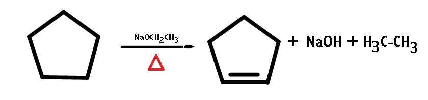 Cyclopentene synthesis from cyclopentane reduction